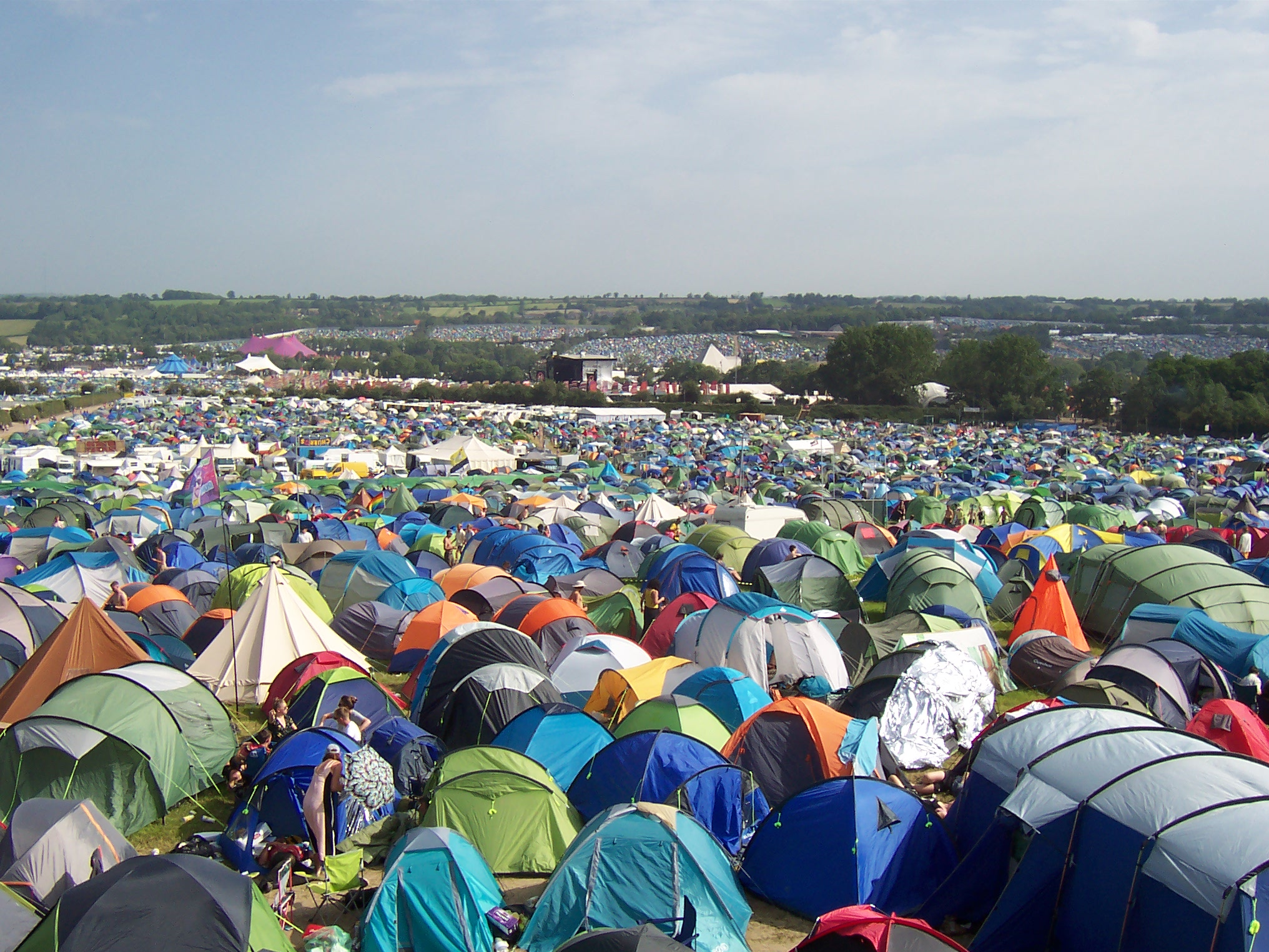 Pennard Hill Ground, public camping field at Glastonbury Festival 2019, as seen from "Glastonbury-on-Sea". Saturday 9:30 AM. In the background the following venues are visible, from left to right: Pussy Parlure (blue stripes), Sonic (white), John Peel Stage (red/blue), Other Stage (black/silver), Pyramid Stage (white/silver), The Glade (white, in between trees)